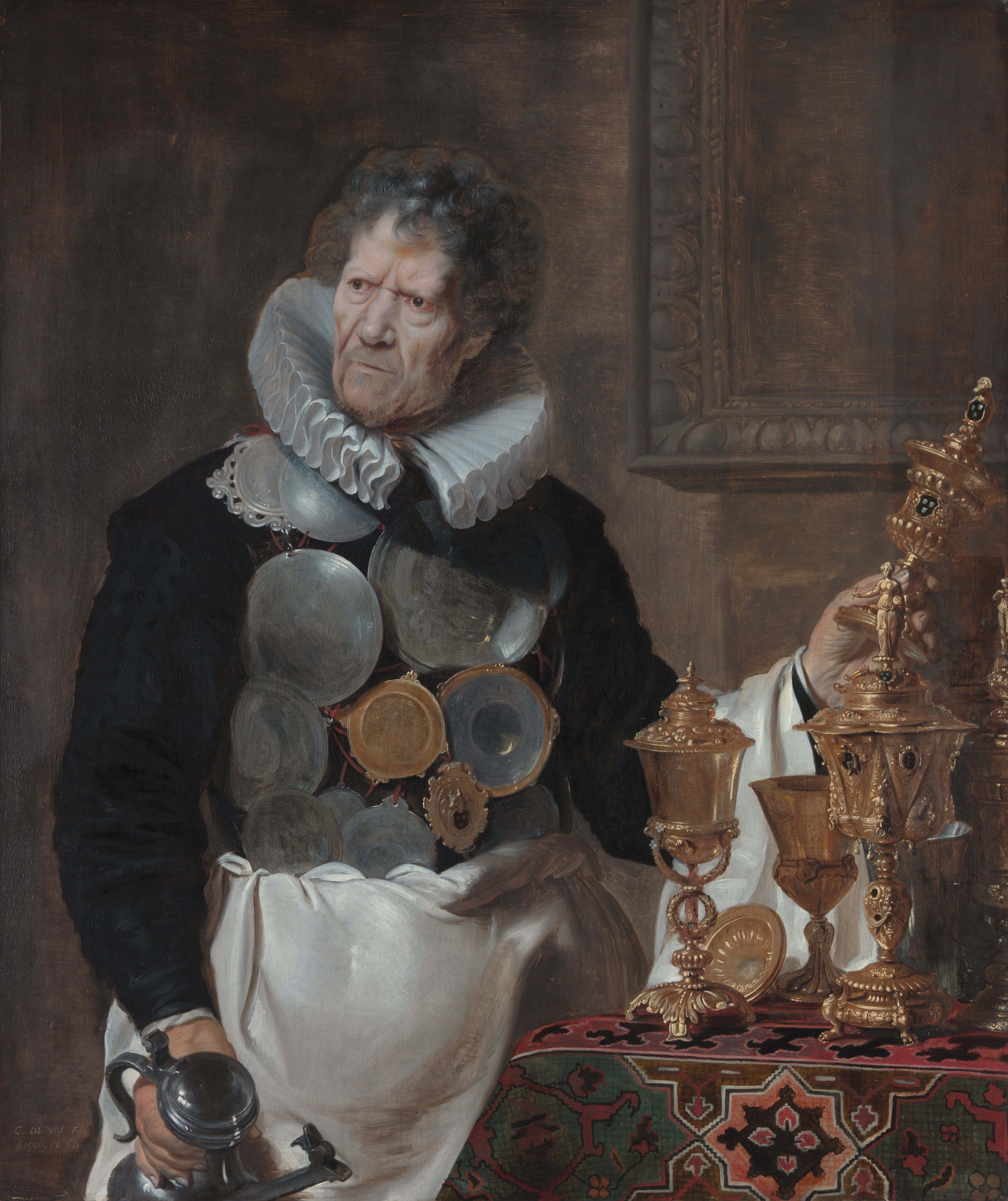 Abraham Grapheus oil on panel 120 × 102 cm 1620